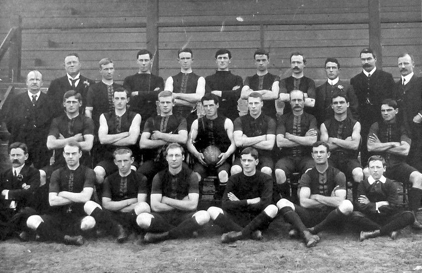 Team photo of the 1907 Norwood premiership team.